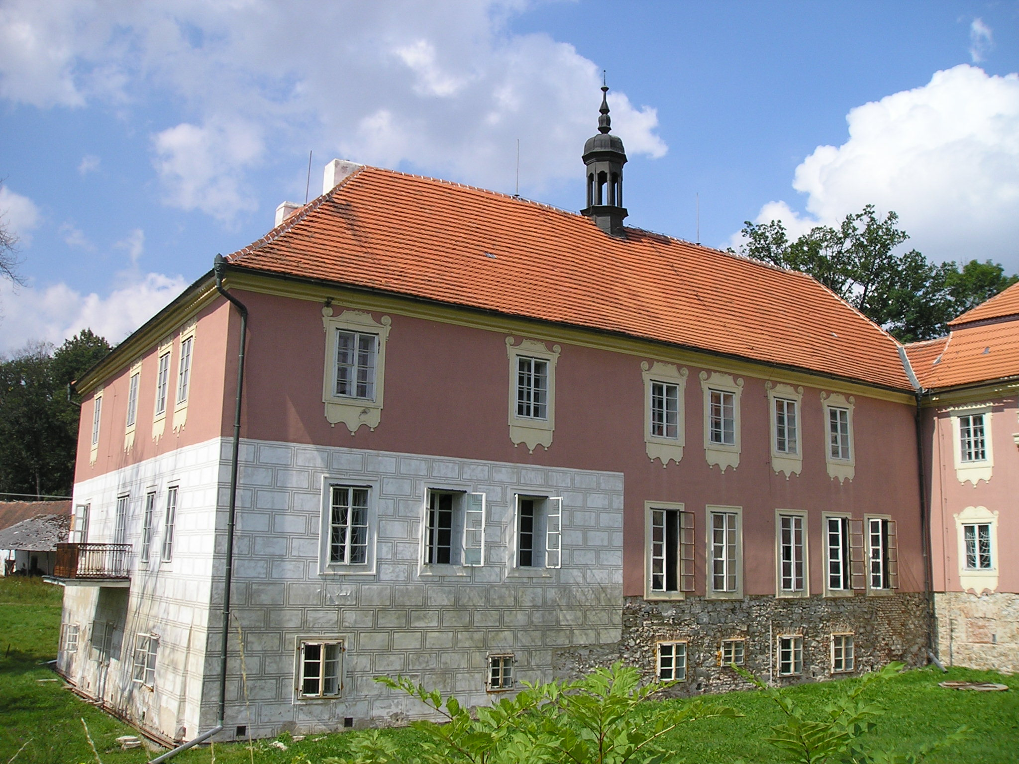 Koloděje château (castle) near Týn nad Vltavou, Czech Republic. Not to be confused with Kolodějský zámek in Prague.